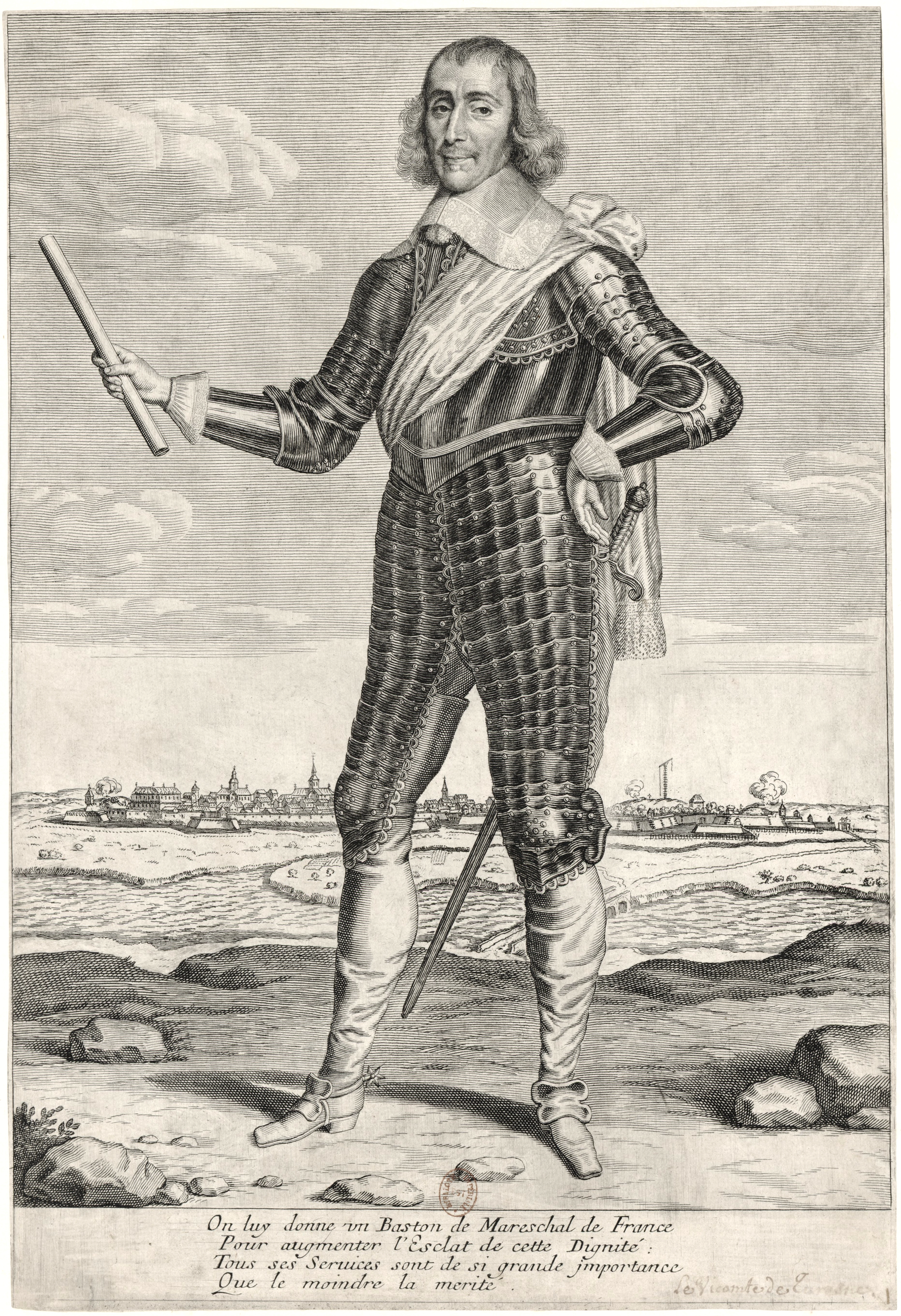 Abraham de Fabert (1599–1662), marshal of France.